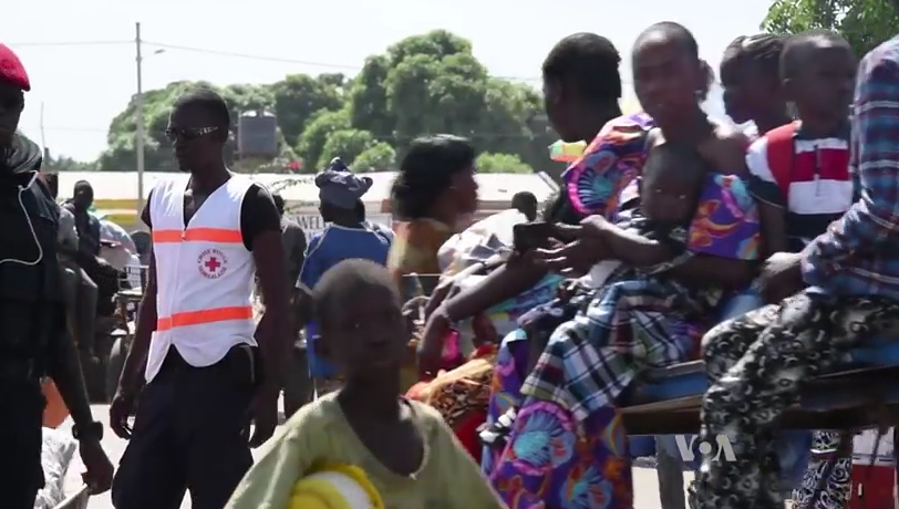 Refugees and red cross personnel at the Karang border crossing with Gambia.